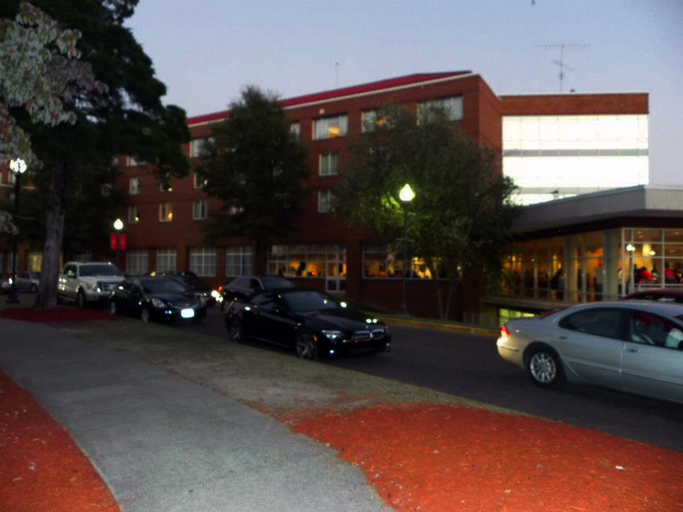 The Tuskegee University Kellogg Hotel & Conference Center